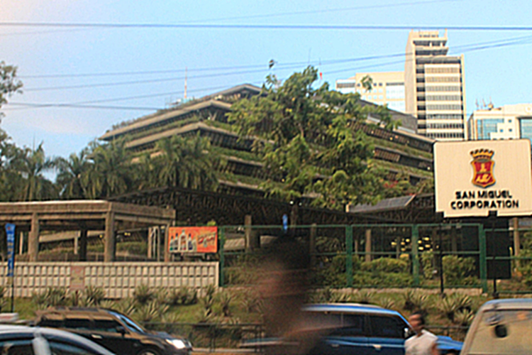 San Miguel Corporation Head Office Complex at Mandaluyong